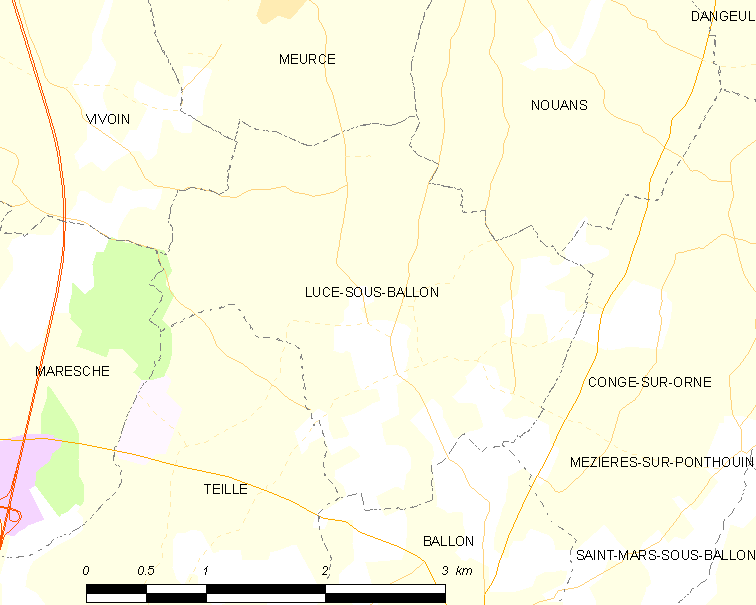 Map of French municipality